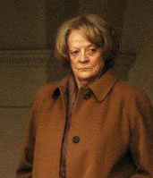 Dame Maggie Smith in Kensington Gardens filming 'Capturing Mary', 7th March 2007. Shot with a long lens from the nearby path in a break between filming. The weather was cold and she appeared to be taking shelter.